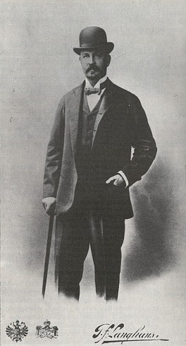 Portrait of Wladimir Semjonowitsch Golenischtschew, Russian Egyptologist